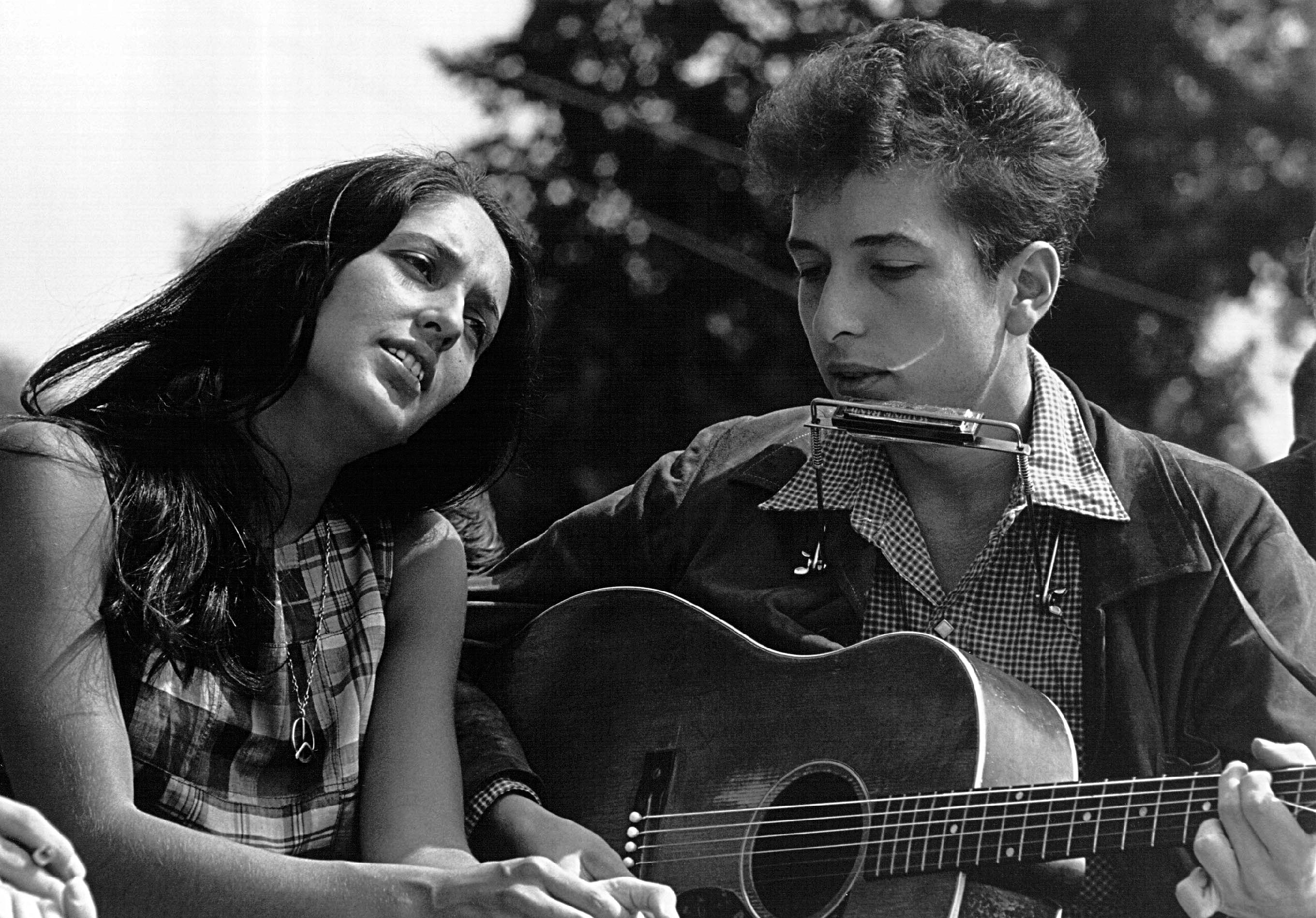 Joan Baez and Bob Dylan, Civil Rights March on Washington, D.C.